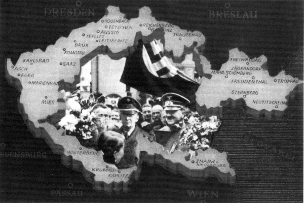 Sudeten Germans thank Adolf Hitler